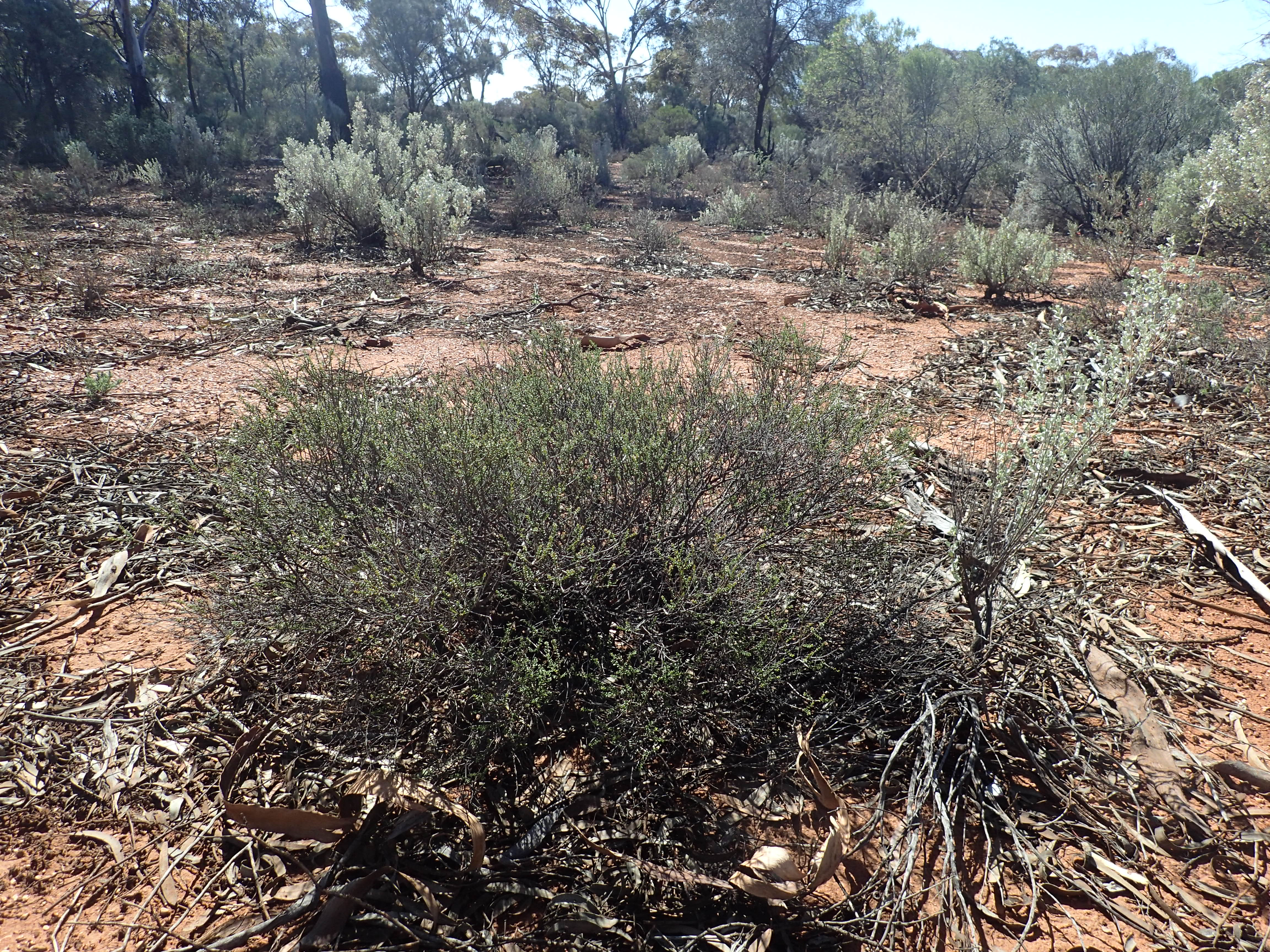 Eremophila parvifolia auricampa growing 10km from Kalgoorlie along Yarri Road